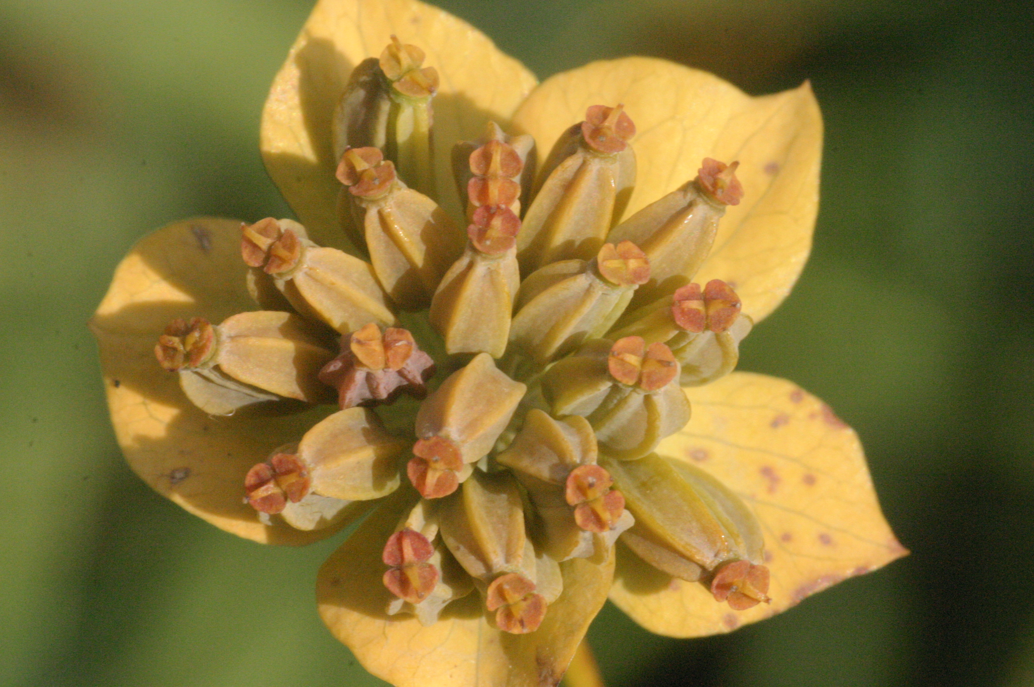 Bupleurum longifolium subsp. vapincense